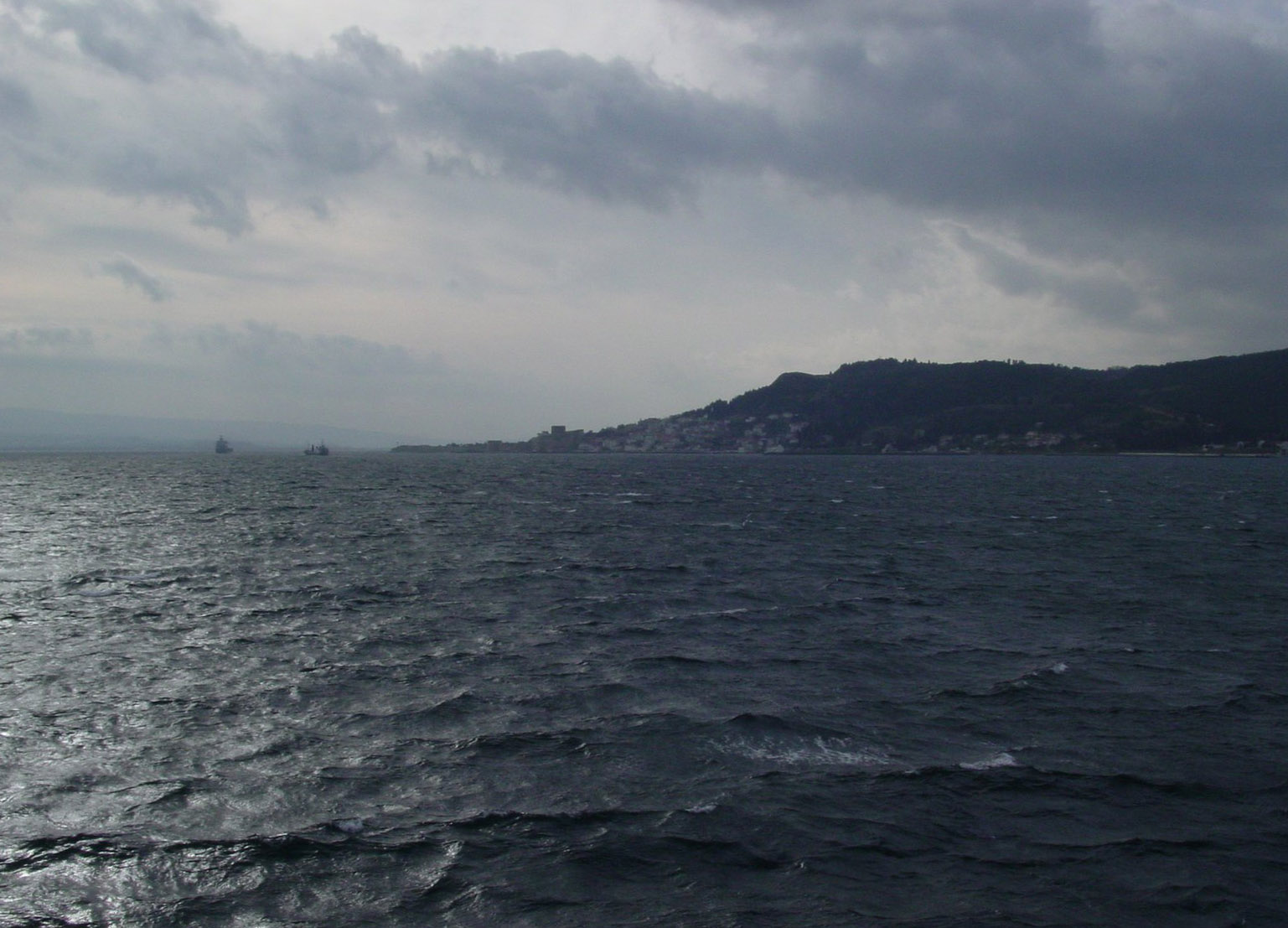 A shot from "Dardanelles" from a ship.